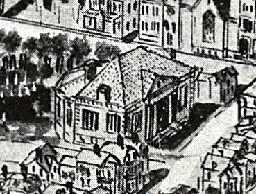 Aerial view of New Brunswick, NJ, 1910